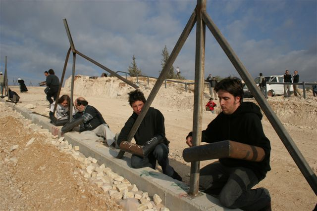 Non-israeli activists of the International Solidarity Movement shackle themselves to the foundations of the West Bank Barrier, as part of a non-violent protest against the Barrier in the village of Bil'in.